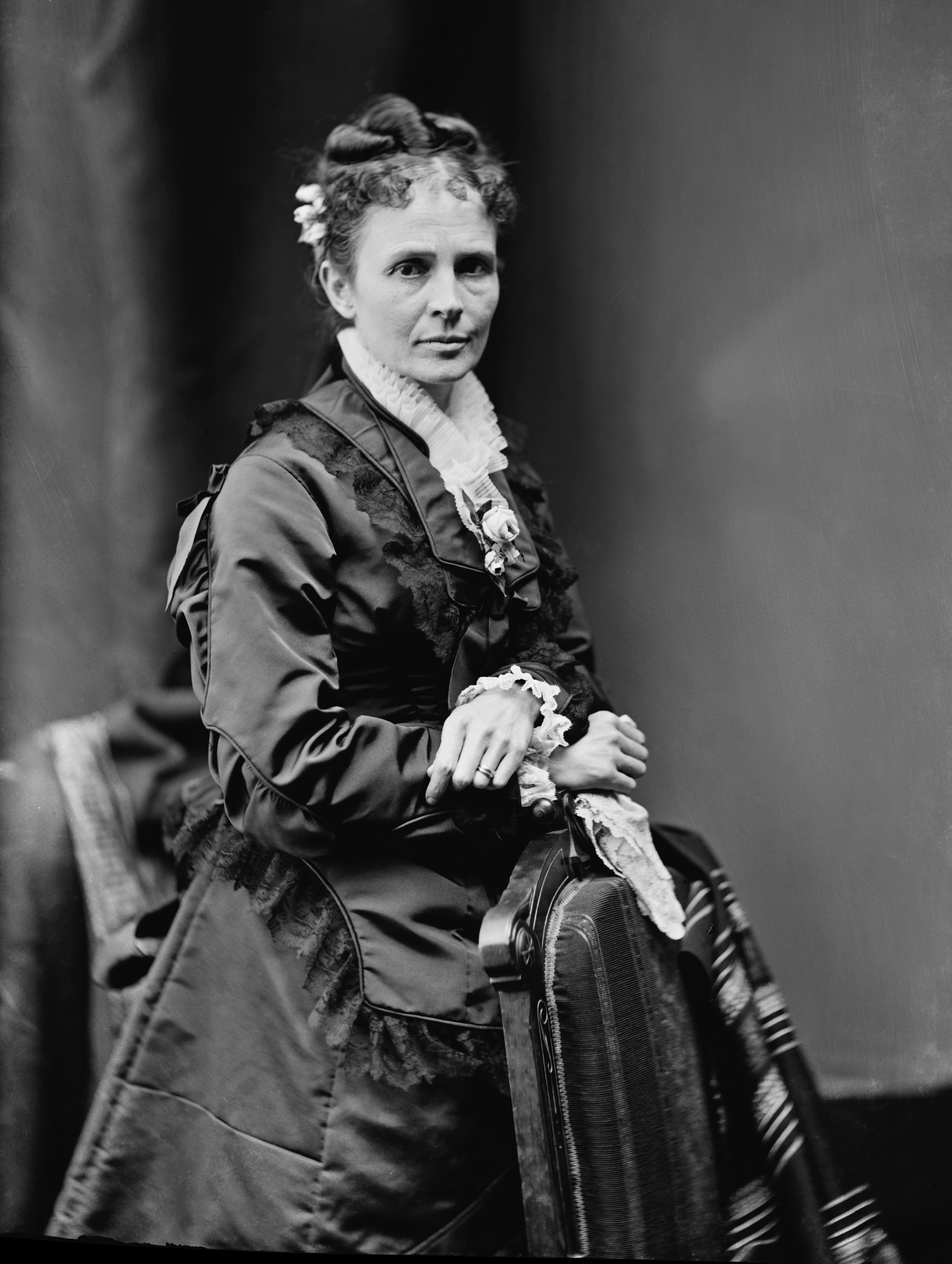 Lucretia Garfield. Library of Congress description: "Garfield, Mrs. James, wife of President Garfield"